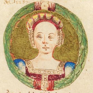 Costanza della Scala, 2nd wife of Obizzo II d'Este